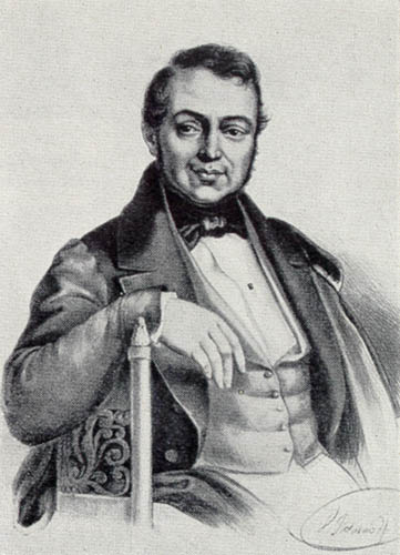 Portrait of Saverio Mercadante, italian composer